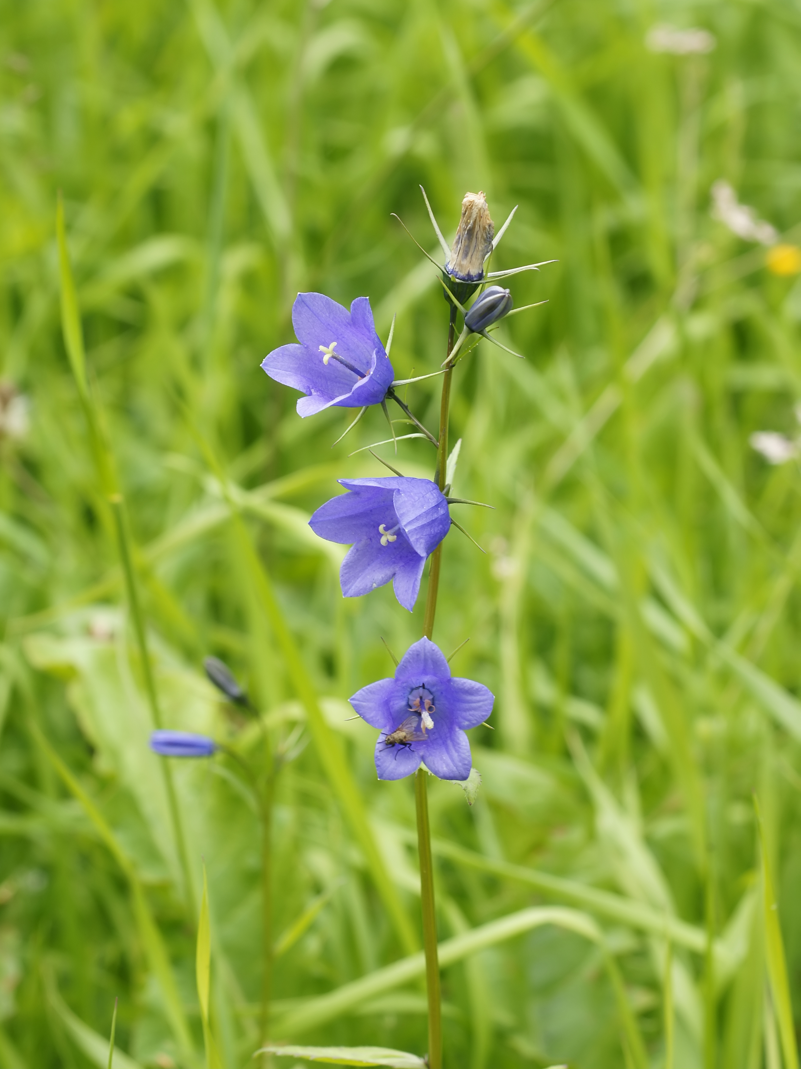 Harebell, at Saas Fee, Switzerland